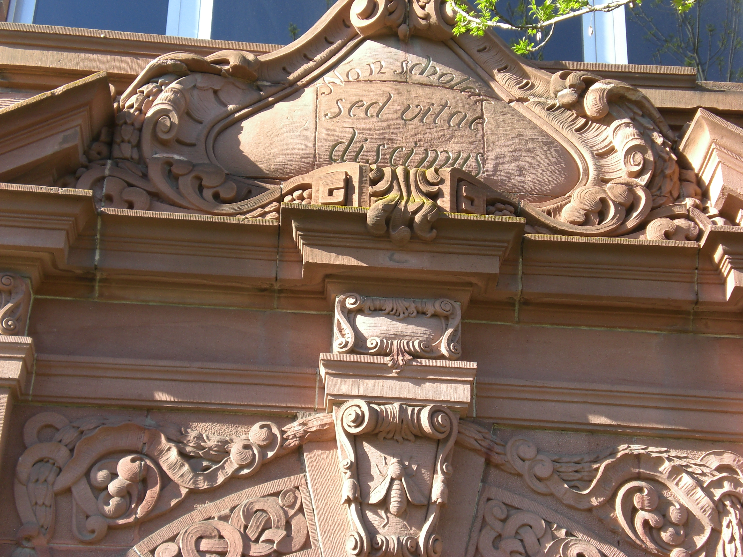 The inscription above the ancient portal.